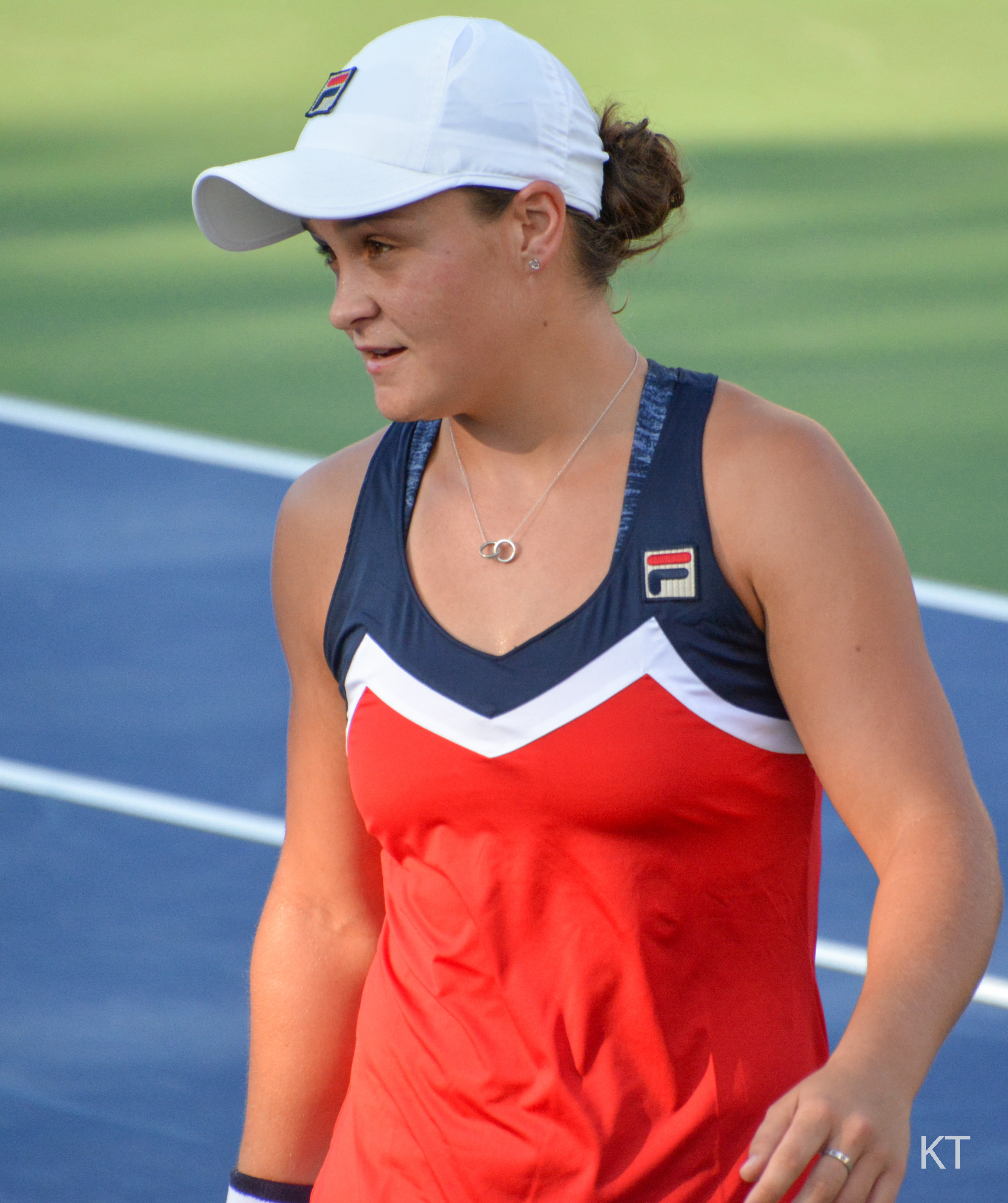 Day 4 of US Open 2018.